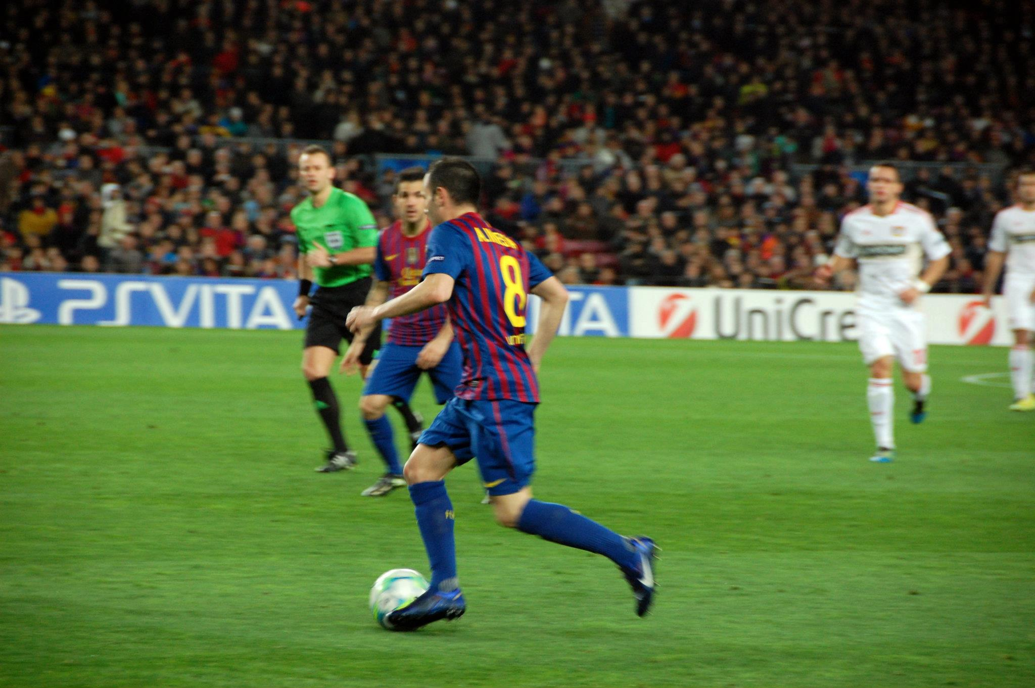 FC Barcelona - Bayer 04 Leverkusen, 1/8 Final UEFA Champions League, Season 2011/2012